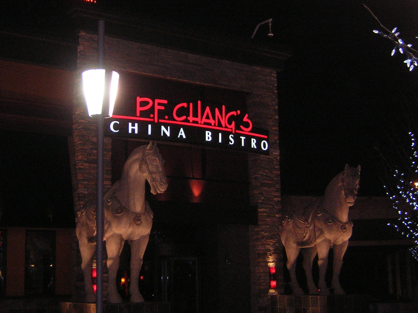 PF Chang's...one of the newest restaurants in The Plaza (Stamford Town Center, Connecticut)